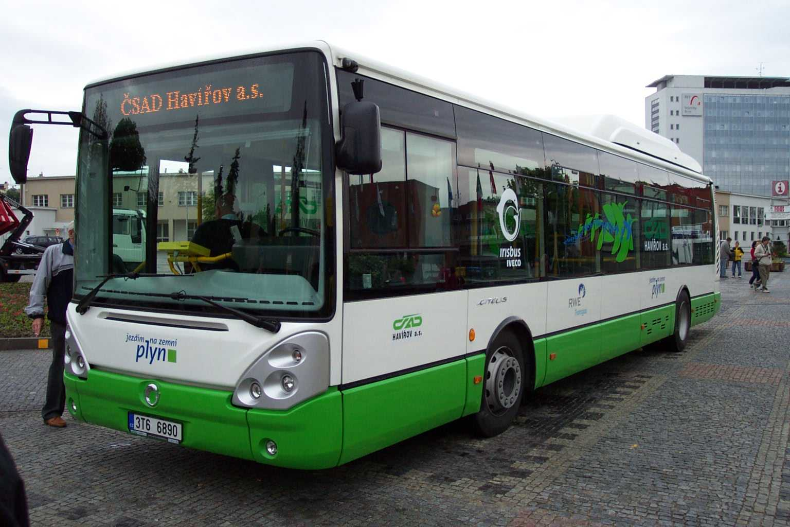 Bus type Irisbus Citelis with CNG propulsion at Autotec Brno, CZ.